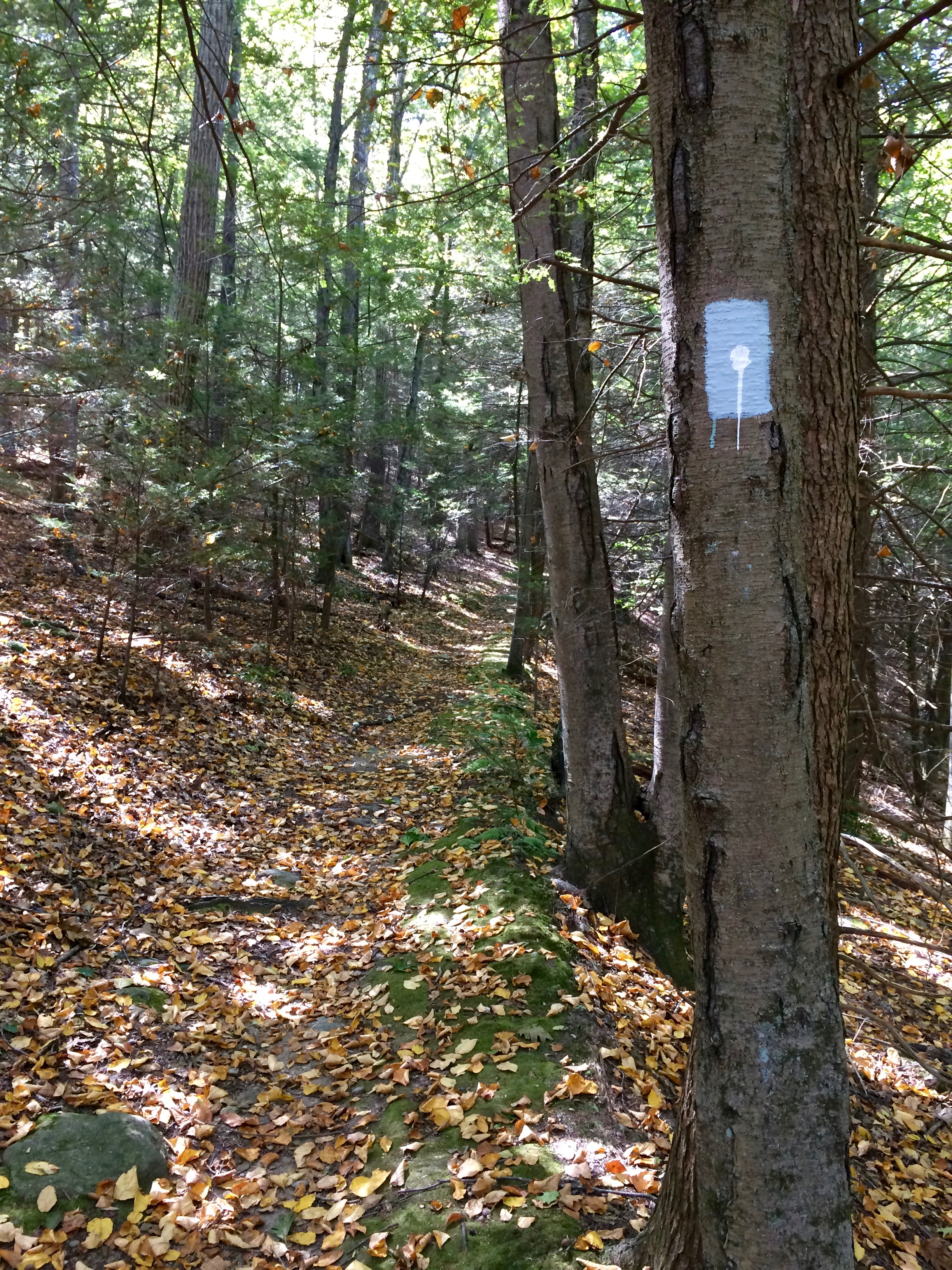 Tunxis "White-Dot" Blue-Blazed hiking trail near Bradley Brook and CT Route 4 in Nassahegon State Forest (Burlington, Connecticut).